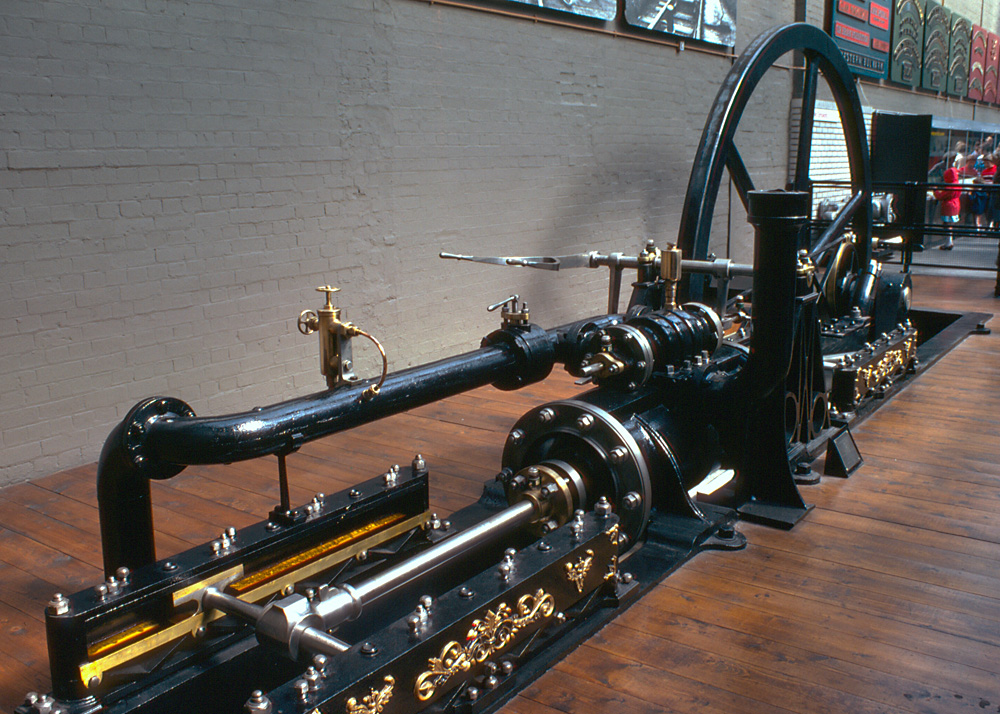 The winding engine from Swannington incline, on the Leicester and Swannington Railway, preserved at the National Railway Museum, York, England. It was manufactured by The Horsely Coal & Iron Company in 1833 for hauling wagons of coal from the mines up the 1-in-17 (5.9%) Swannington incline. The engine is a horizontal type with single cylinder of 18.25 in. bore and 3 ft. 6 in. stroke which worked at 80 lb per sq in. The engine was unusual for the time in having a piston valve. Swannington incline was operated until 1948 and the engine was donated by British Railways to York Railway Museum in 1951. References Clinker, C.R. (1977) The Leicester & Swannington Railway Bristol: Avon Anglia Publications & Services. Reprinted from the Transactions of the Leicestershire Archaeological Society Volume XXX, 1954.